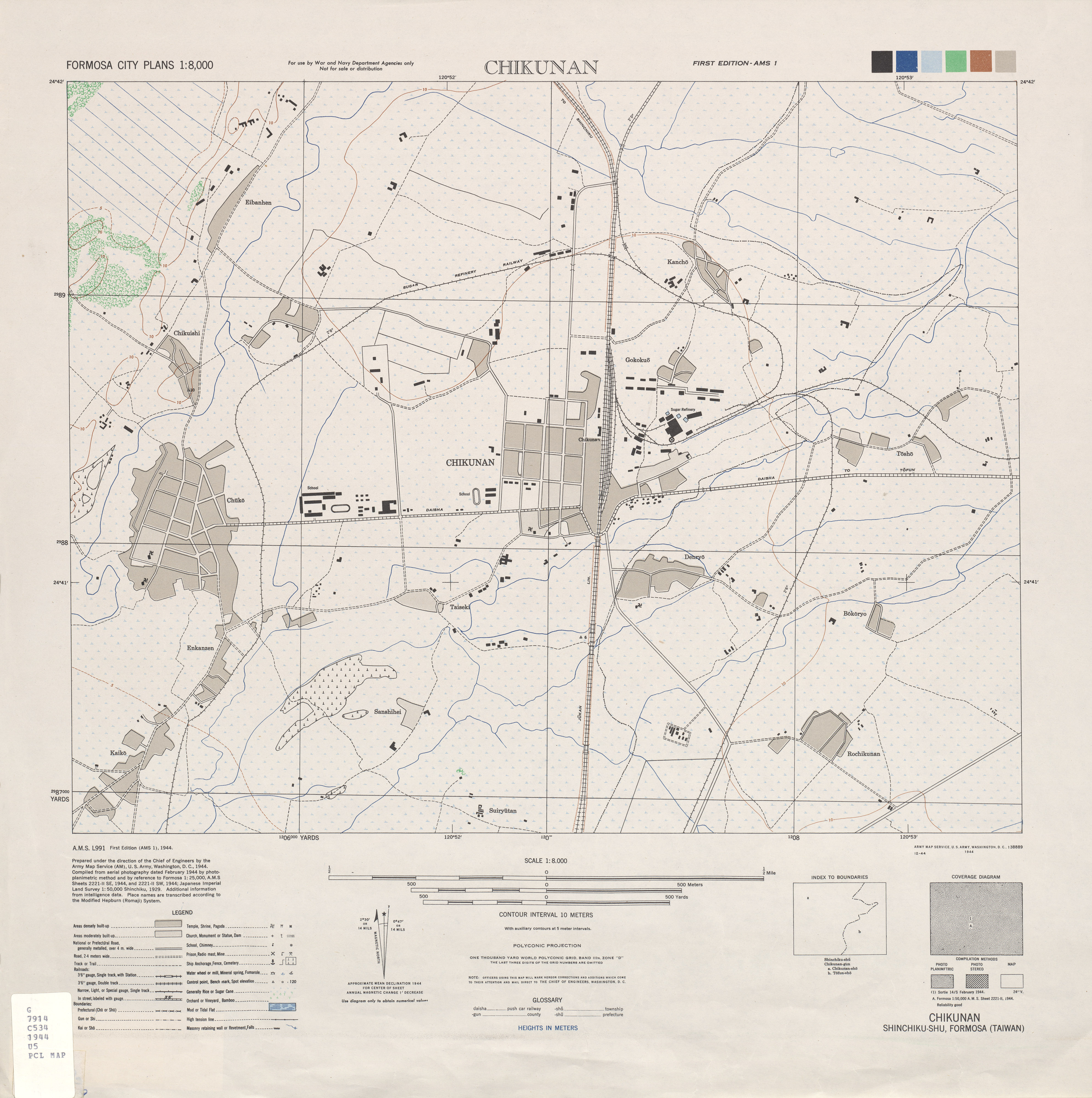 Chikunan 1:8,000 1944